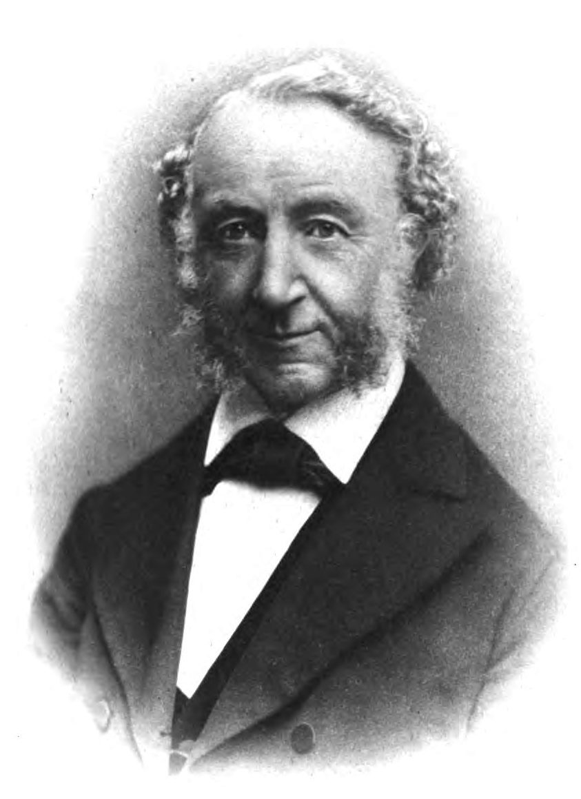 Depicted person: Ernst Ranke – German theologian